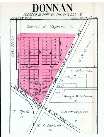 Plat map of the town of Donnan in 1916, showing the locations of six houses on Logan Street, the railroad depot, and a number of farmhouses at the edge of town.